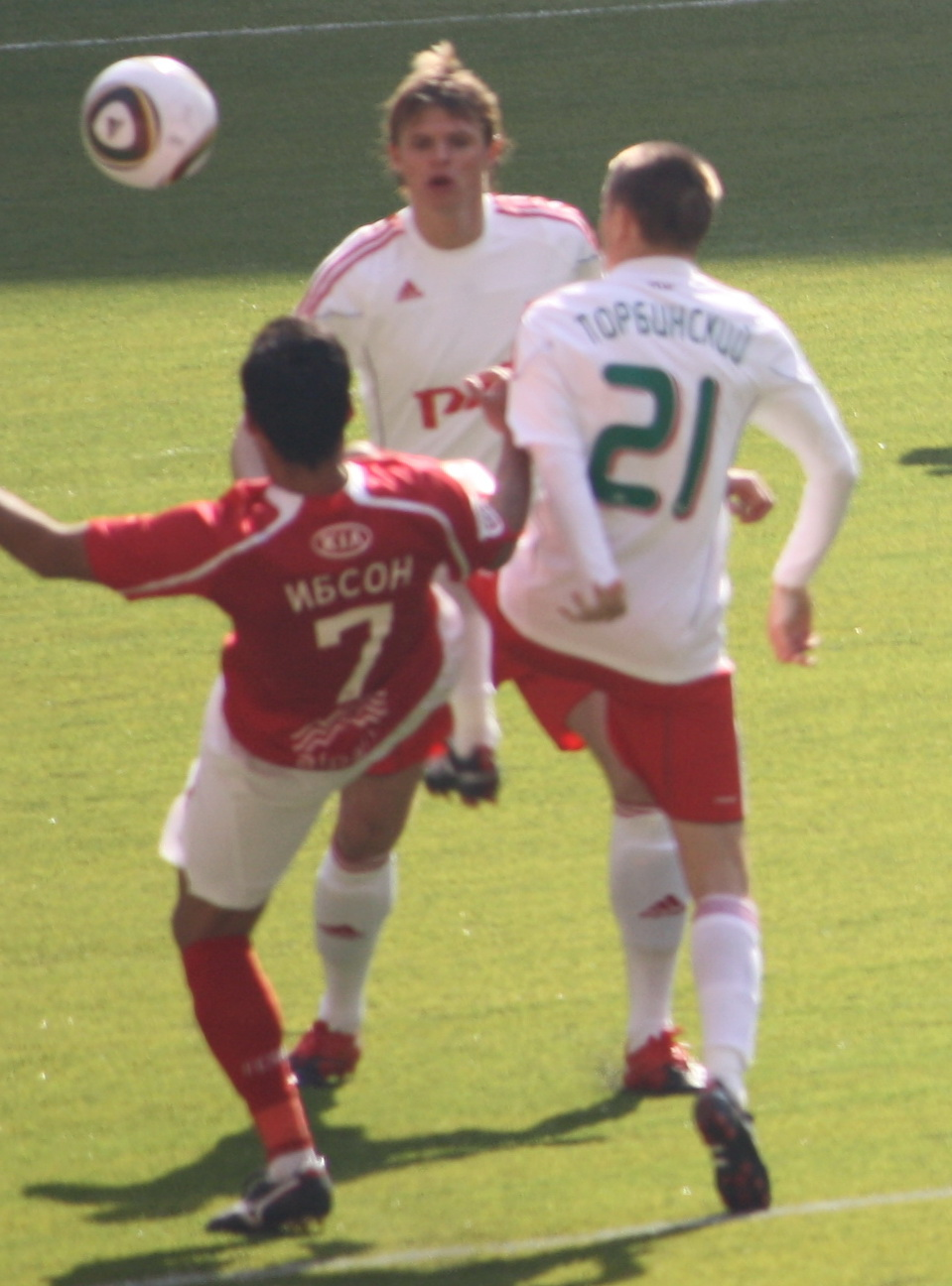 Dmitry Torbinsky and Ibson